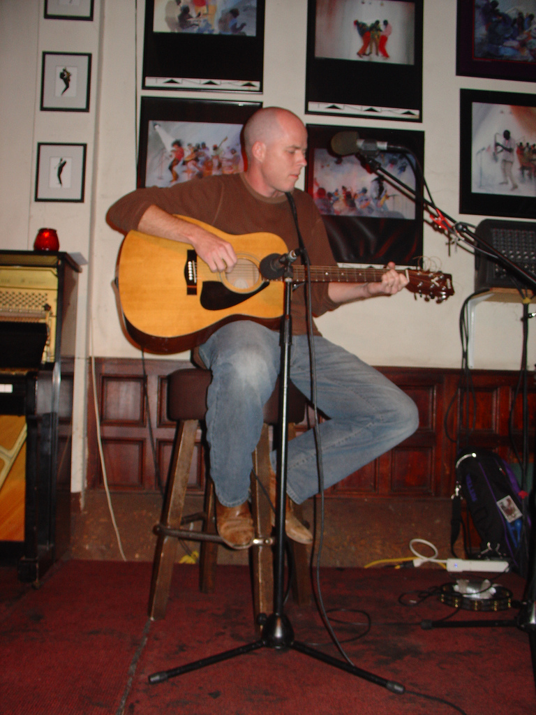 Musician performs at open mic at the No Name bar in Sausalito, CA.